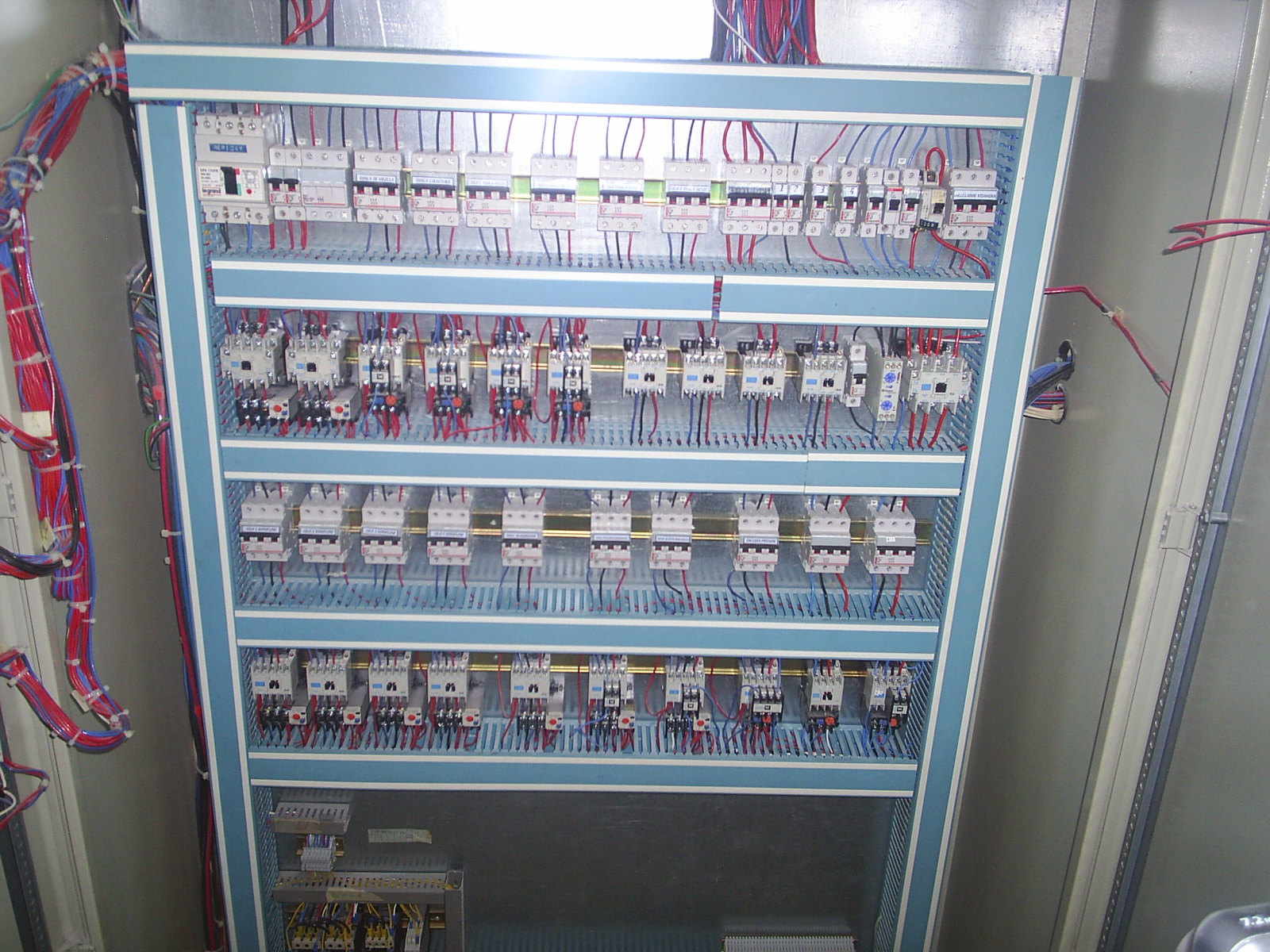 Gabinete compuesto por contactores y relés.